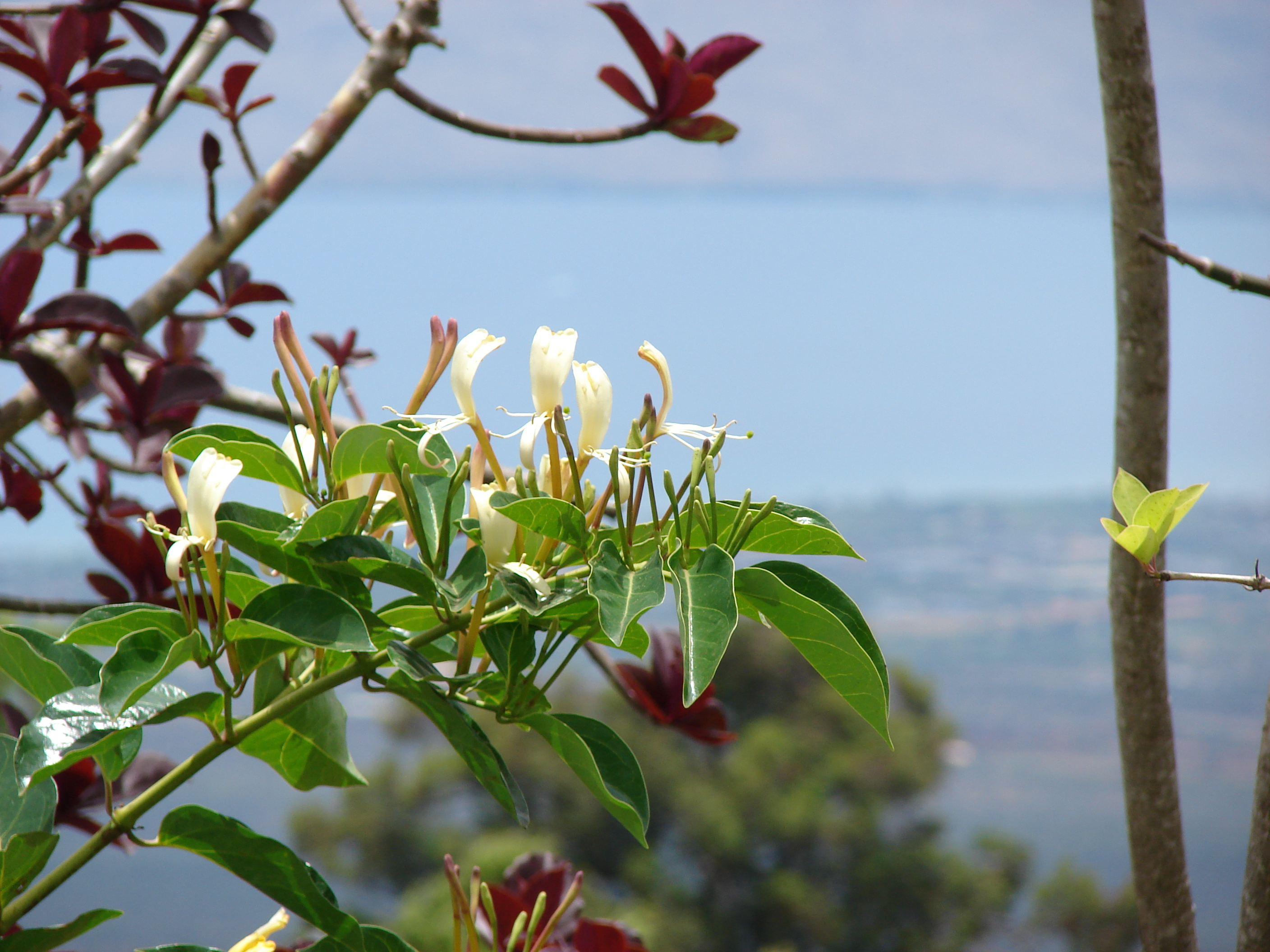 starr-090520-8179-plant-Lonicera_hildebrandiana-flowers_and_leaves-Keokea